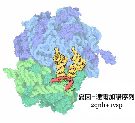 Shine-Dalgarno sequence